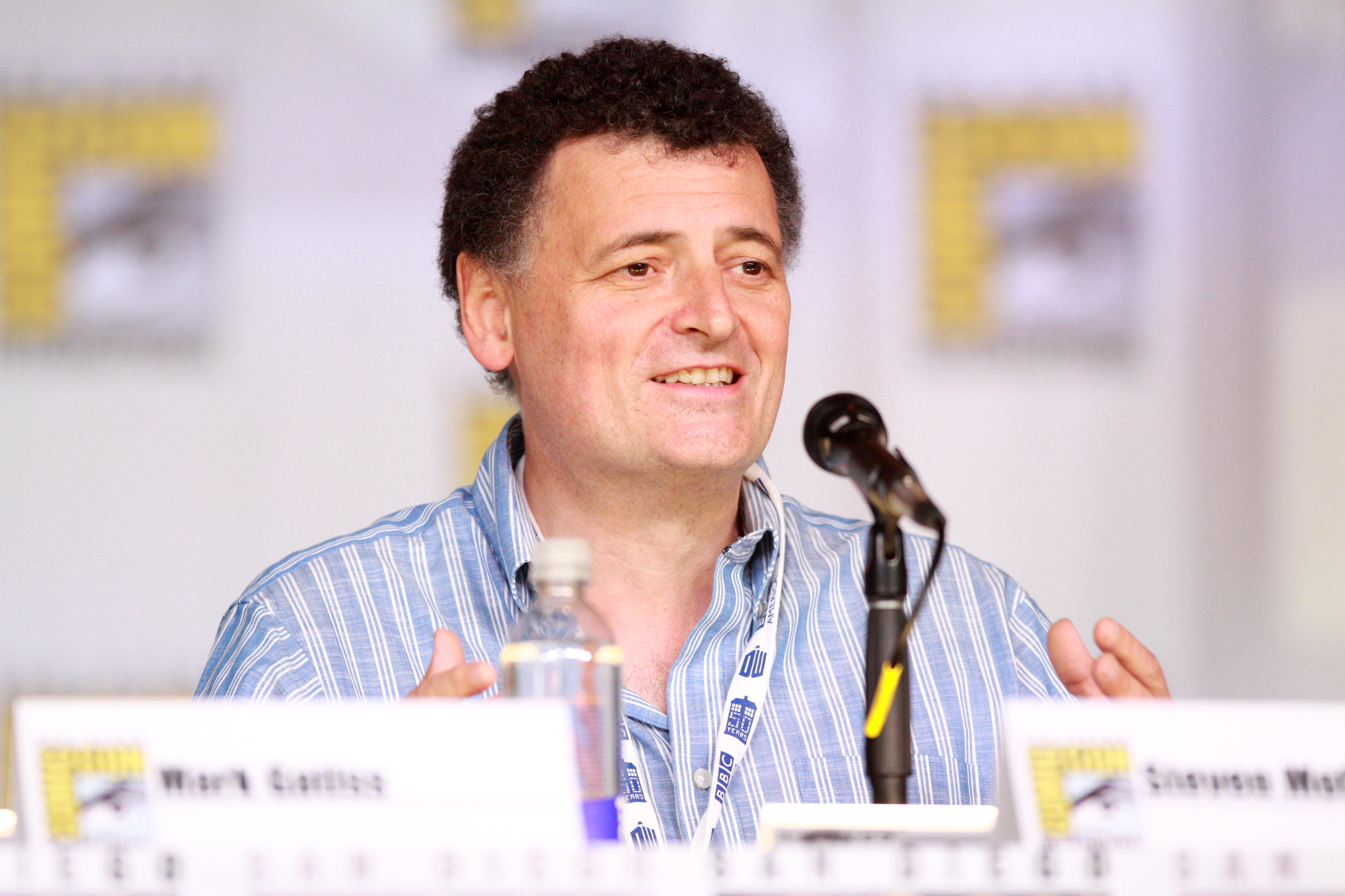 Steven Moffat speaking at the 2013 San Diego Comic Con International, for "Sherlock", at the San Diego Convention Center in San Diego, California.